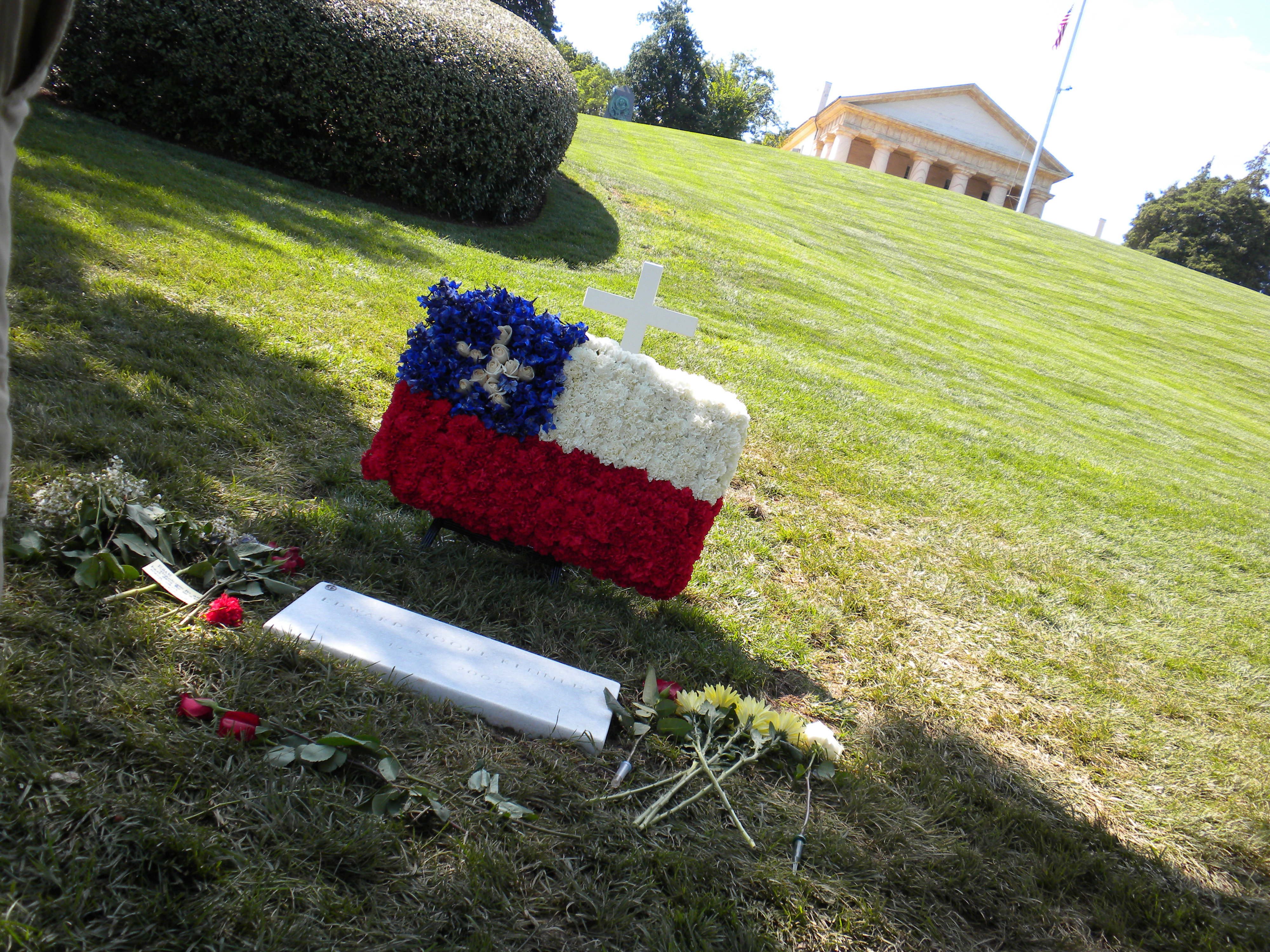 Ted Kennedy's gravesite at Arlington National Cemetary.